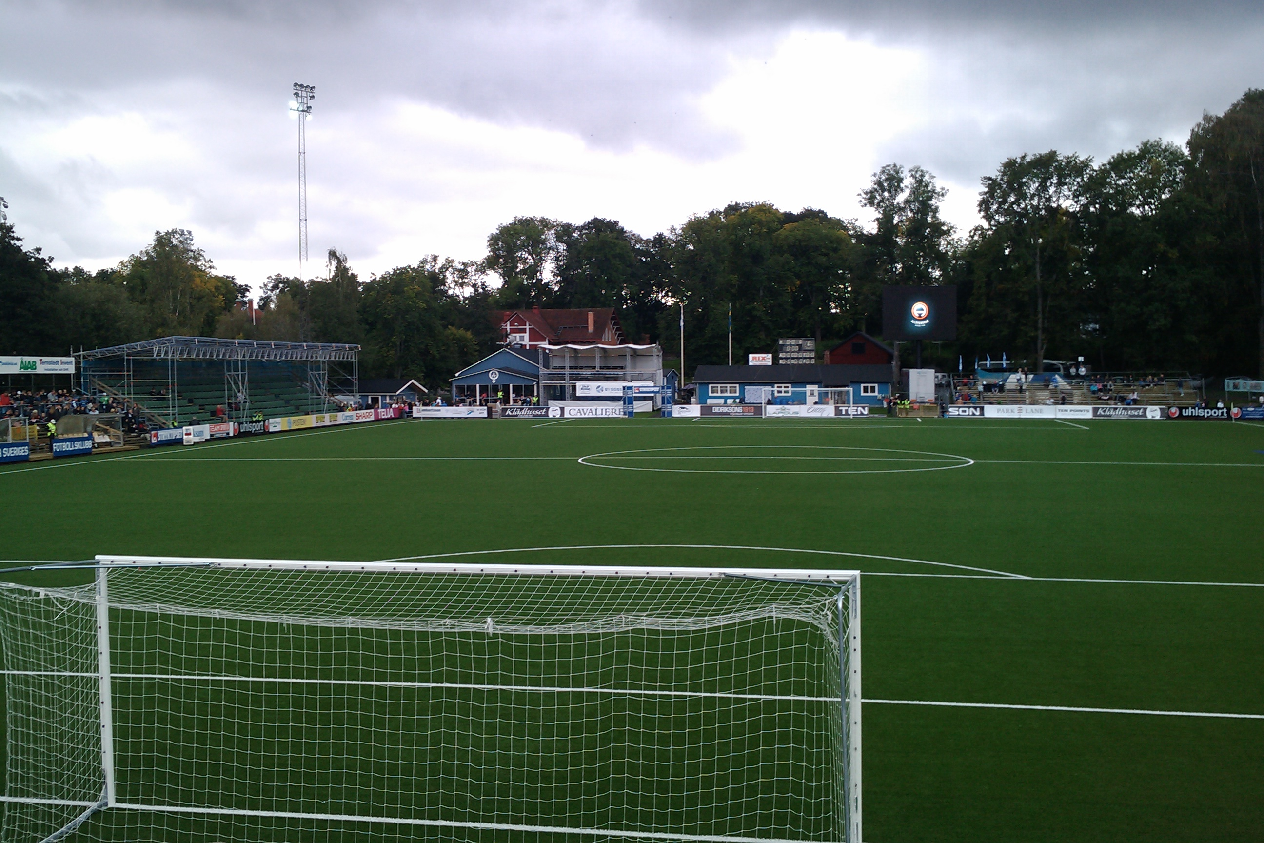 The interior of Kopparvallen in Åtvidaberg, Sweden